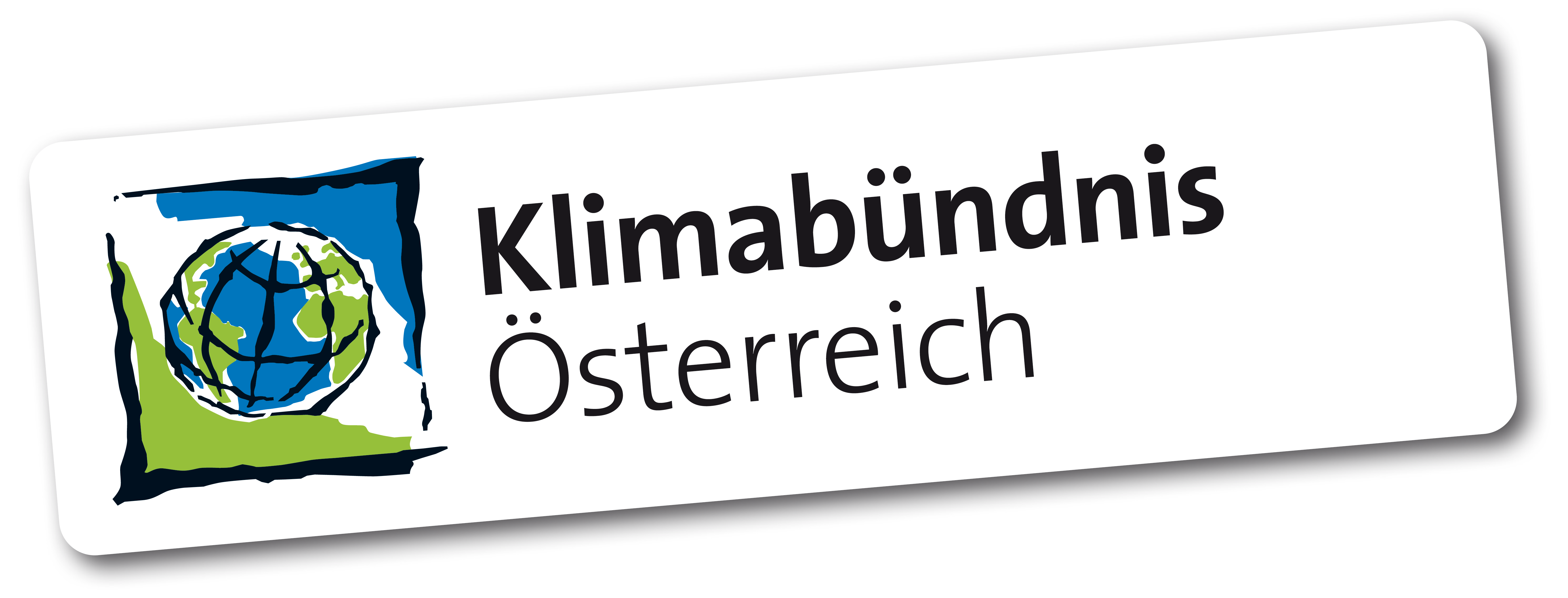 german version of the logo of the Climate Alliance Austria